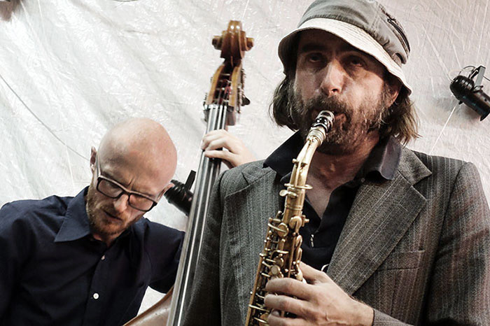 Henrik Walsdorff and Adam Pultz Melbye at Aarhus Jazz Festival 2016